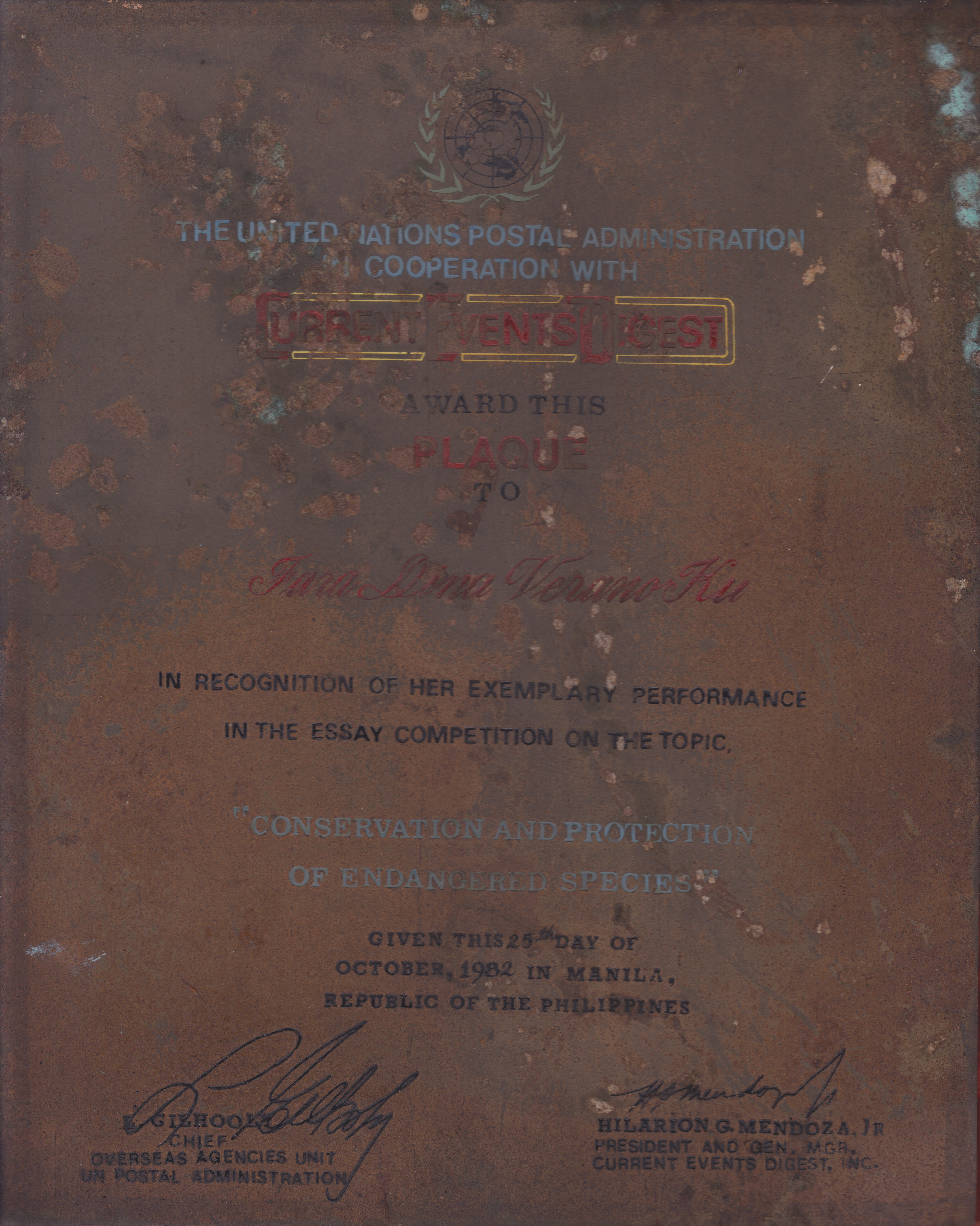 Plaque of Recognition awarded to the winner of 1982 Philippines Essay Competition on the Topic "Conservation and Protection of Endangered Species" sponsored by the United Nations Postal Administration and Current Events Digest